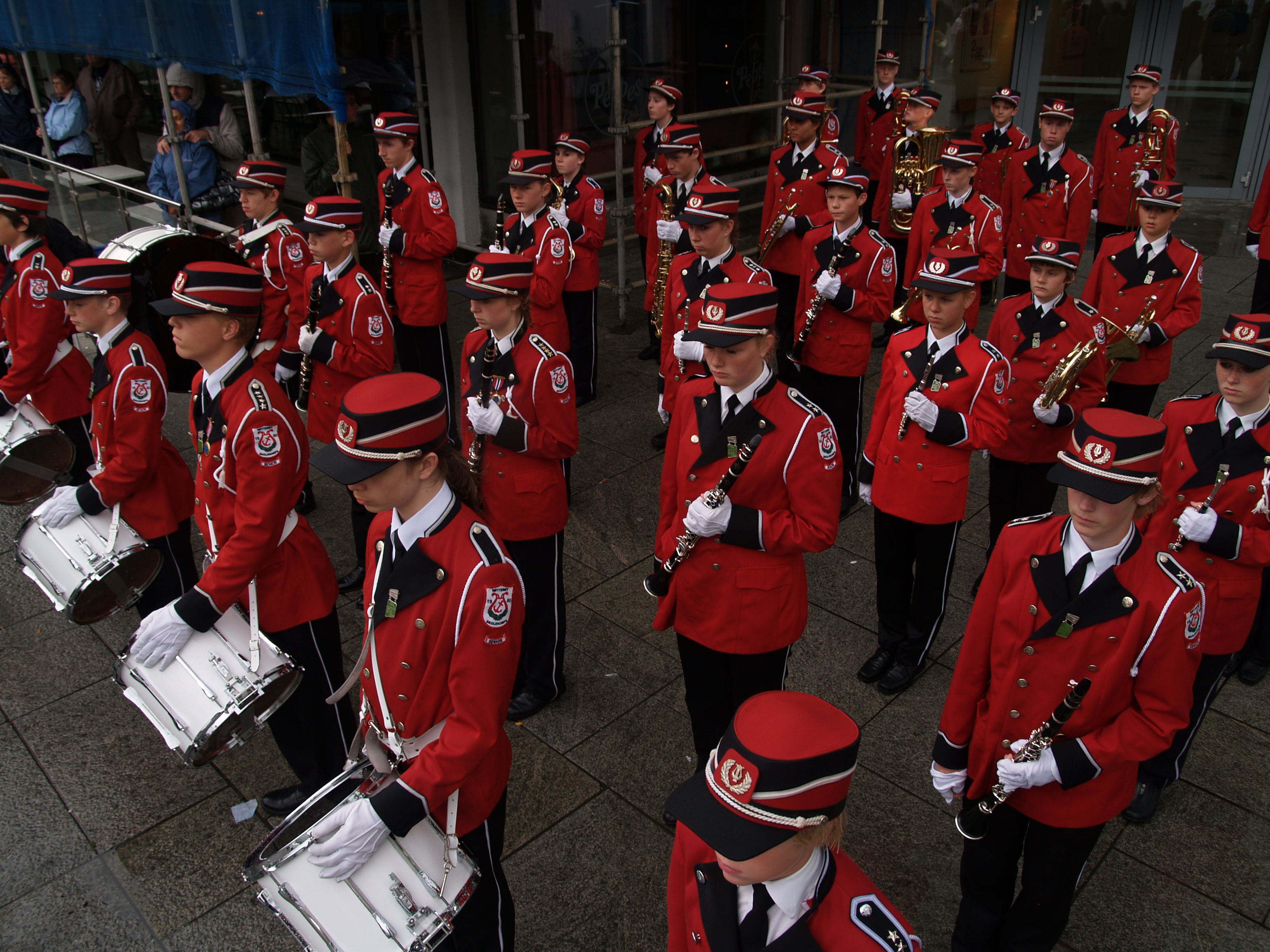 Seniorkorpset i Stavanger 2008